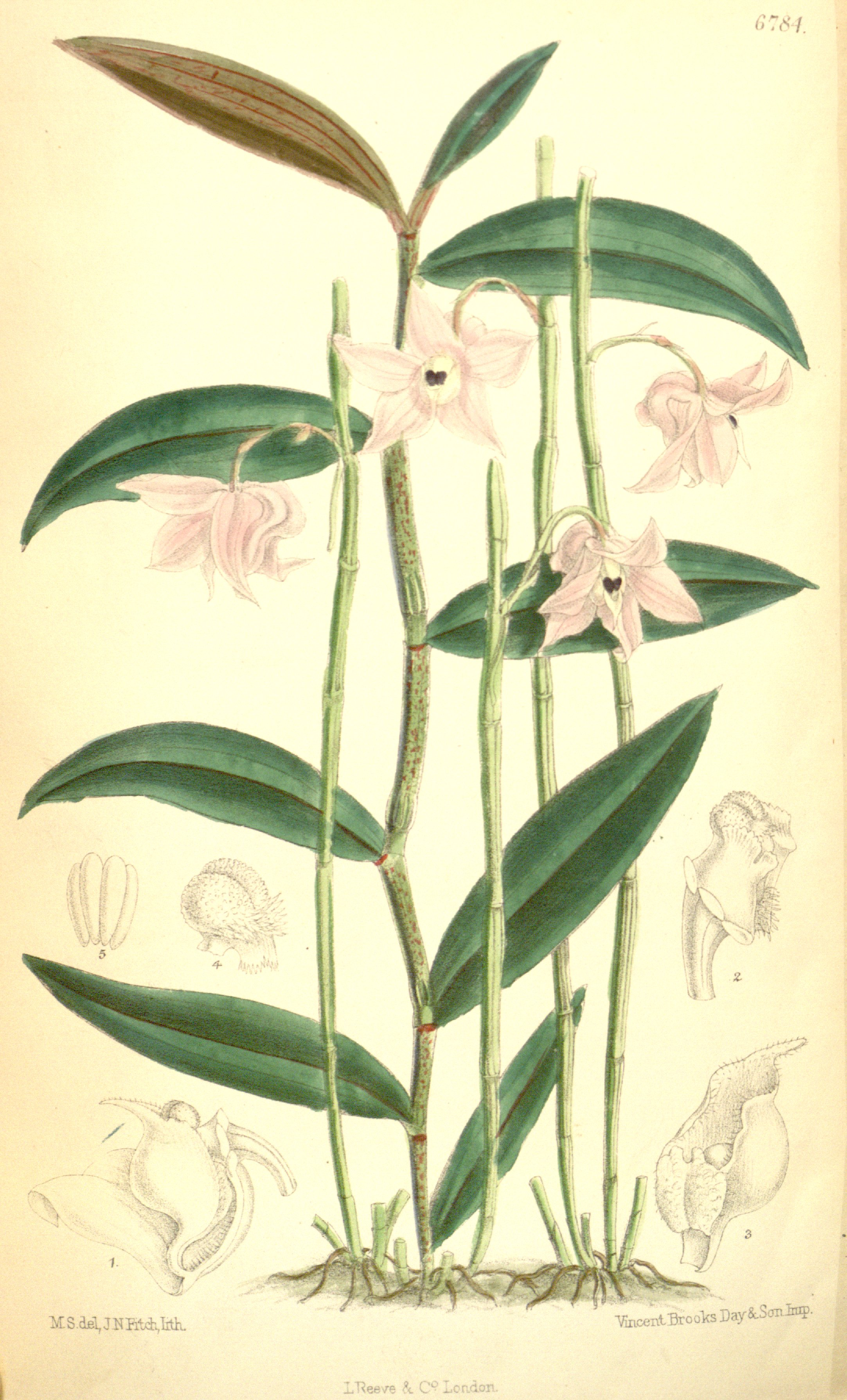 Illustration of Dendrobium aduncum